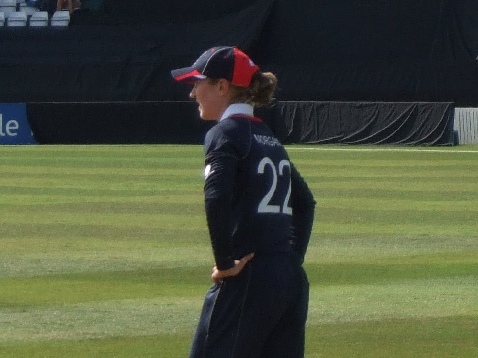 English cricket Beth Morgan fielding during the 2009 Women's World Twenty20 in Taunton